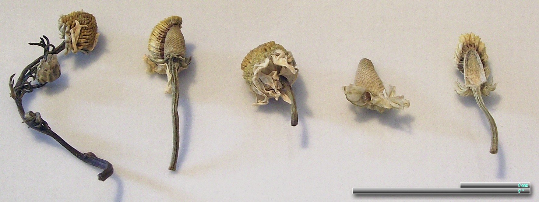 dried Matricaria recutita or German chamomile, also spelled camomile Flowers